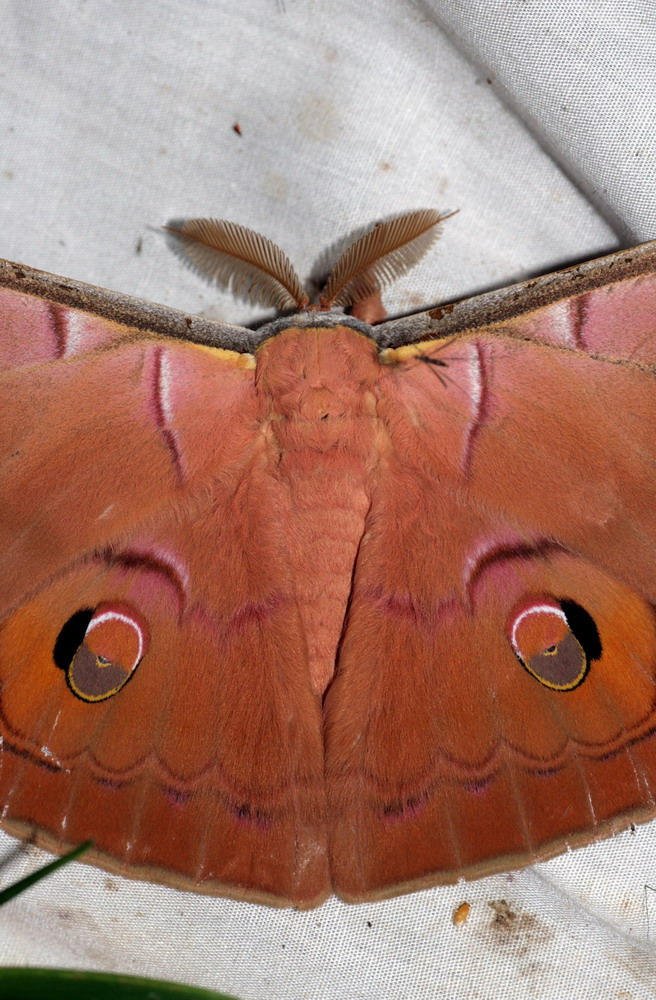 Borneo, Crocker Range National Park April, 2009